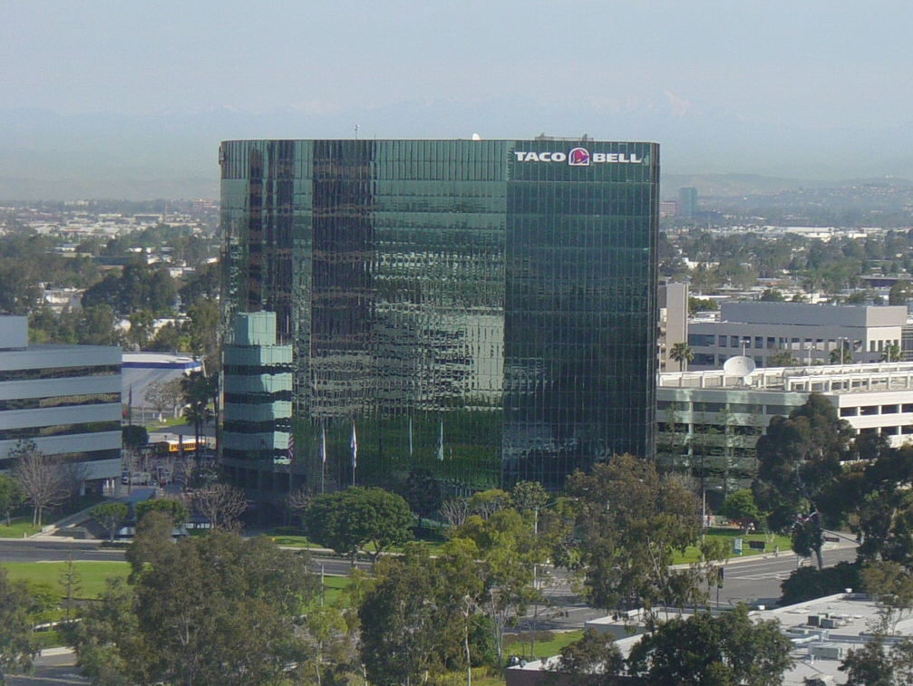 Photograph of Taco Bell's former headquarters building in Irvine, California. Taken from the Marriott, Irvine in April 2005.